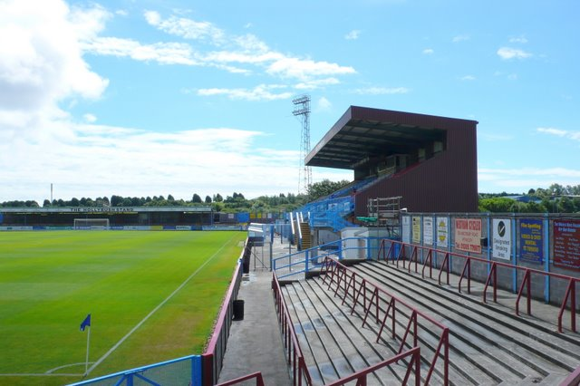 The Wessex Stadium, home of Weymouth FC. View of the main stand from inside the ground